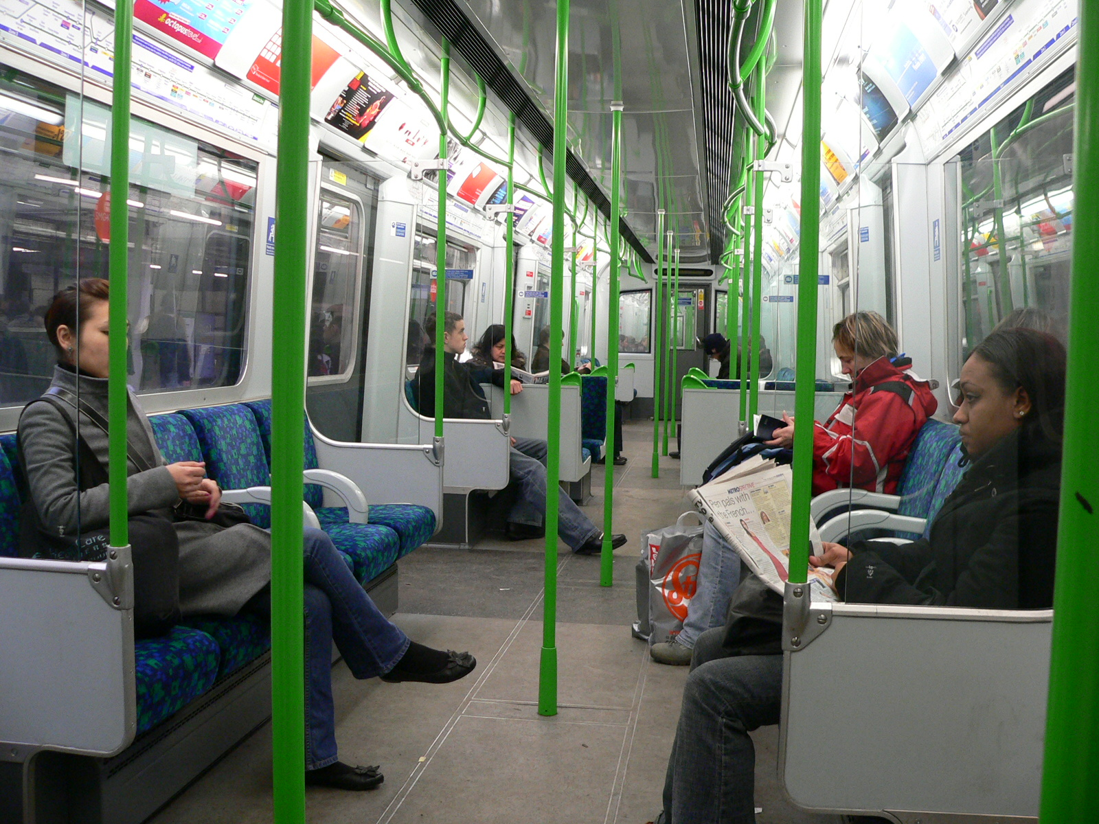 The interior of recently refurbished London Underground District Line D78 Stock EMU 7012.